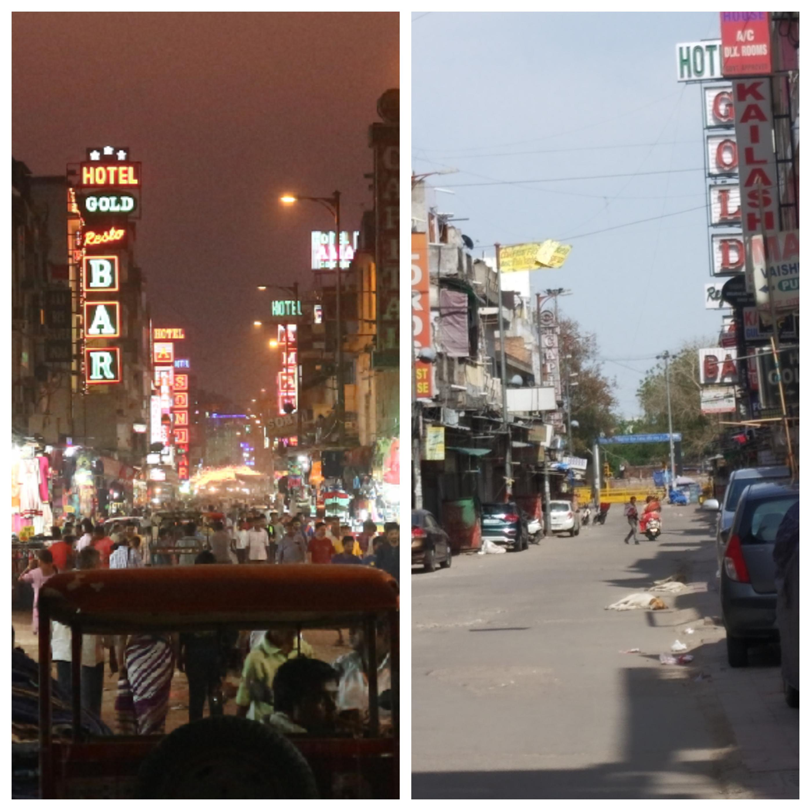 Collage of impact on tourism by comparison same street of Paharganj during 2017 and during COVID 19 pandemic in 2020